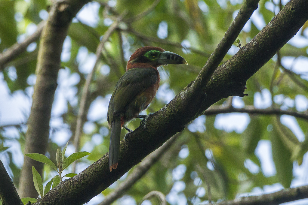 A female Spot-billed Toucanet at Reserva Ecológica de Guapi Assu (REGUA), Rio de Janeiro, Brazil.